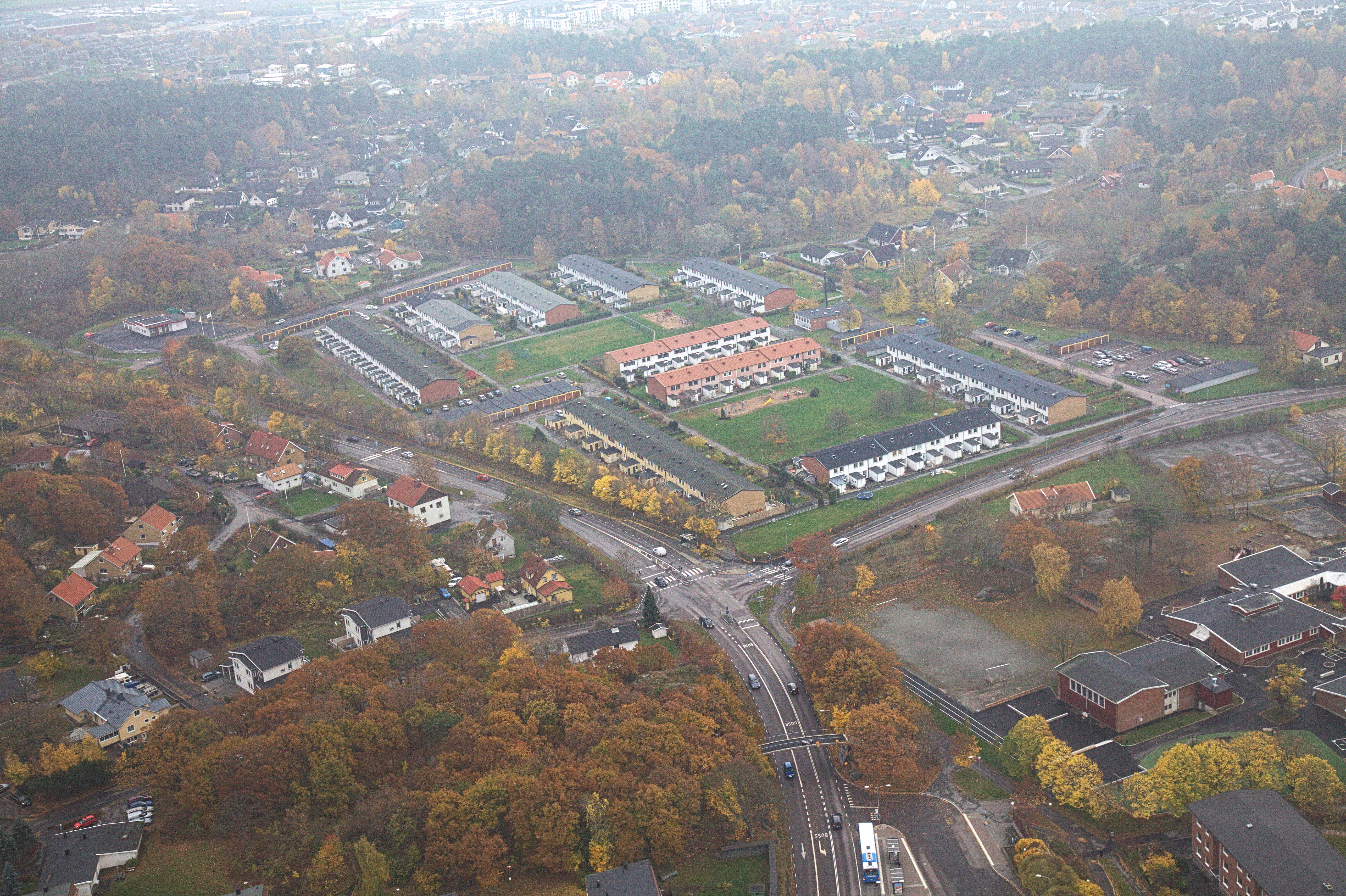 Photo taken on at helicopter over Gothenburg